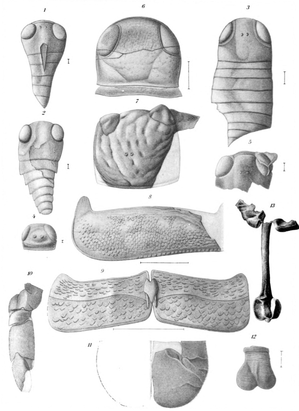 Pterygotus (Erettopterus) globiceps nov. Page 374 1 Nepionic stage showing the enormous size of the lateral eyes, the position of the ocelli and the small number of segments. × 30 2 Another larval specimen showing slightly different form of carapace, thickened rim of eyes and small number of segments of tapering abdomen. × 30 3 An older (neanic) stage in which the abdomen has assumed the proportion and composition of the adult stage. A broad thickened rim surrounds the eyes. × 12 4 Carapace of a young individual showing somewhat different characters, apparently due to compression in longitudinal direction. × 15 5 Fragment of carapace of young individual, showing the smooth cornea of the eyes partly separated from the facettae. × 5 6 Well preserved carapace. Type of the species. × 3 7 Largest carapace observed. Shows the lateral eye, somewhat distorted by oblique compression (indicated by the wrinkles) and the ocelli. On the antelateral corner a fragment of the marginal shield of the ventral side with traces of ornamentation is seen. Natural size 8 Tergite showing antero-lateral lobes and ornamentation. × 3 9 Second sternite with genital appendage of young female. × 3 10 Swimming leg. Natural size Pterygotus (Erettopterus) sp. 11 Portion of a telson showing fine bristles on the margin. Natural size 12 Telson of young individual. × 3 The figures 8, 10, 11 are referred with doubt to this species. Pterygotus? sp. 13 Problematical fossil, possibly the female genital appendage of a Pterygotus [cf. similar appendage of Pterygotus anglicus, Huxley and Salter, pl. 3, fig. 4, 5, 7]. Horizon and locality. Shawangunk grit. Otisville, N. Y. The originals are the State Museum The Eurypterida of New York. Volume 2. New York State Museum Memoir 14, plate 82